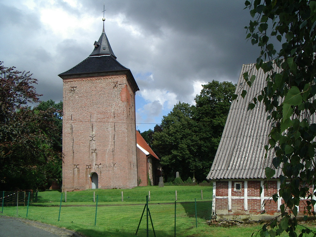 The Evangelical Lutheran St. Nicholas Church in Nordleda, Lower Saxony, Germany. Foto von Benutzer:Geoz 2005